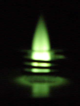 Taken by myself